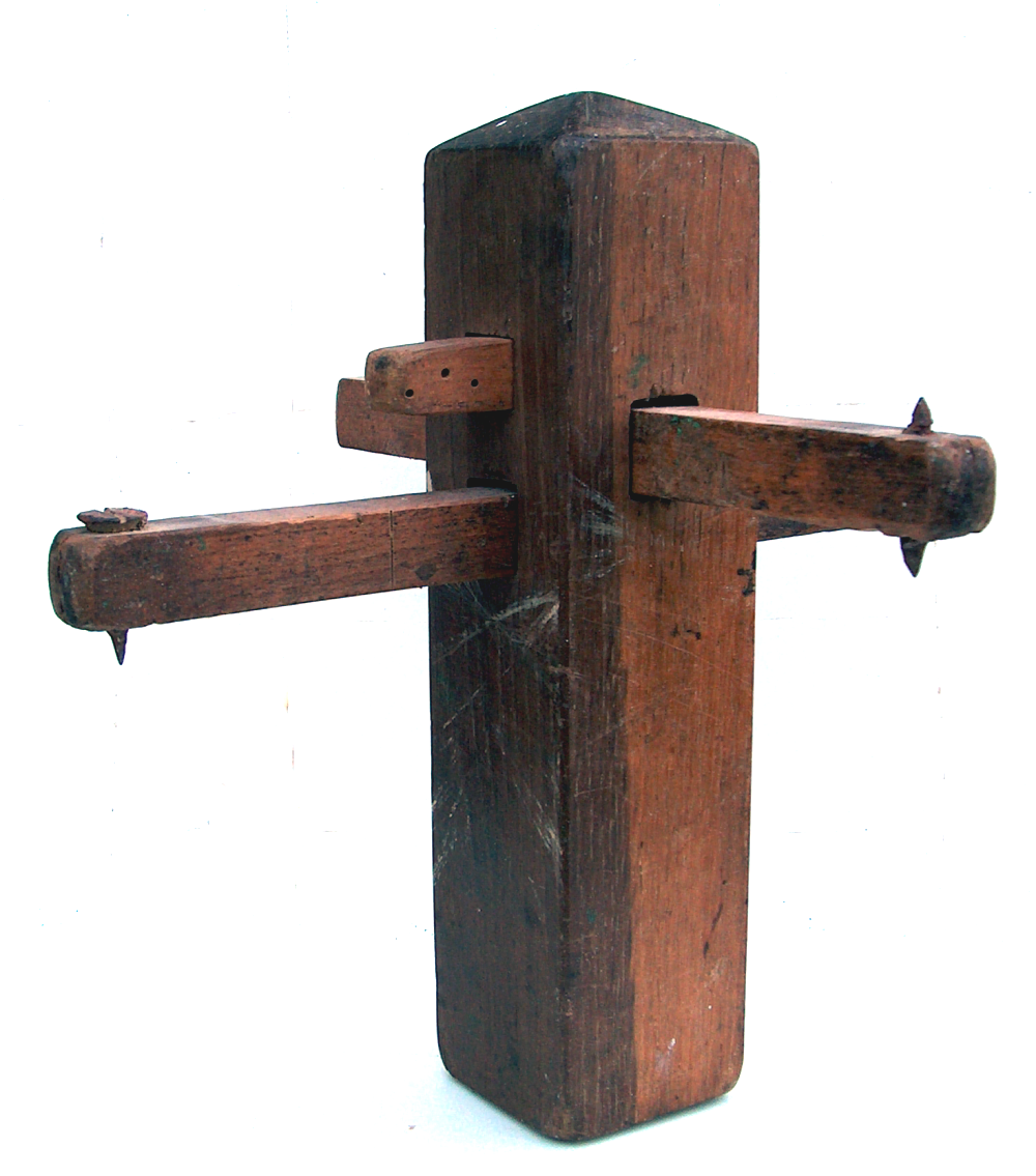 Marking gauge